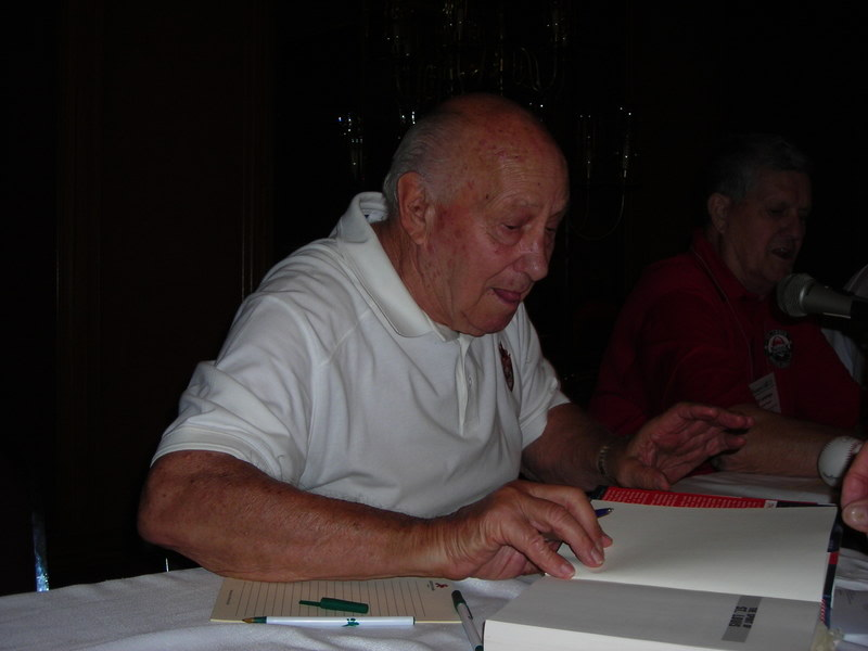 Roy Sievers at SABR convention 2007